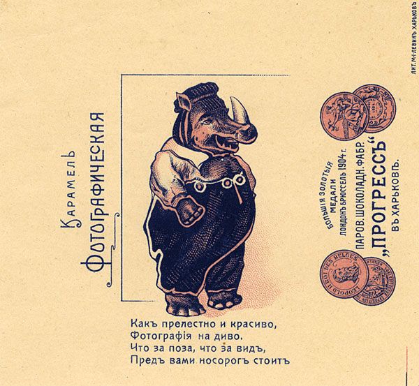 Candy wrapper from caramel "Fotograficheskaya". Anthropomorphic rhino.